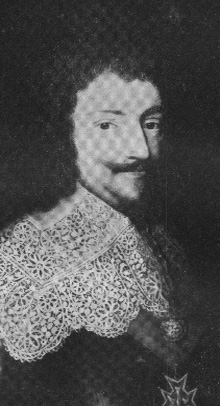 ArtistUnknownTitle